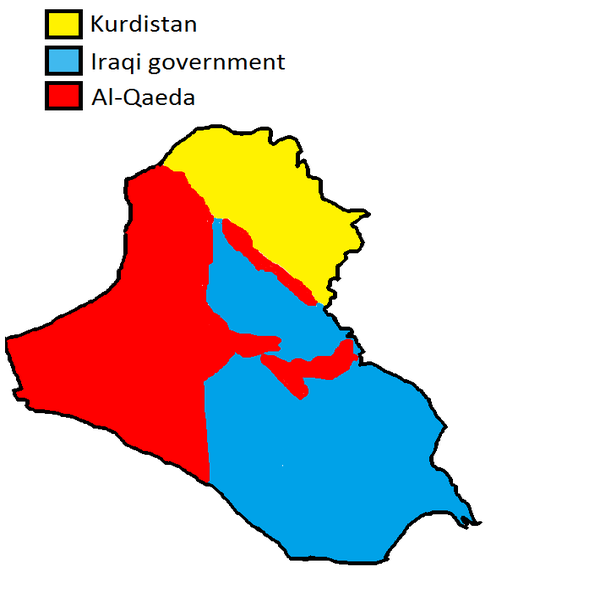 Civil war in 2006